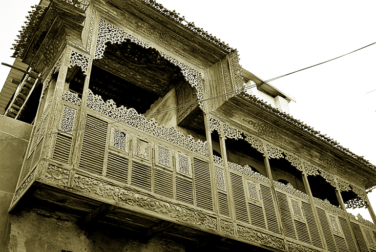 House with carvings in Manama, Bahrain.